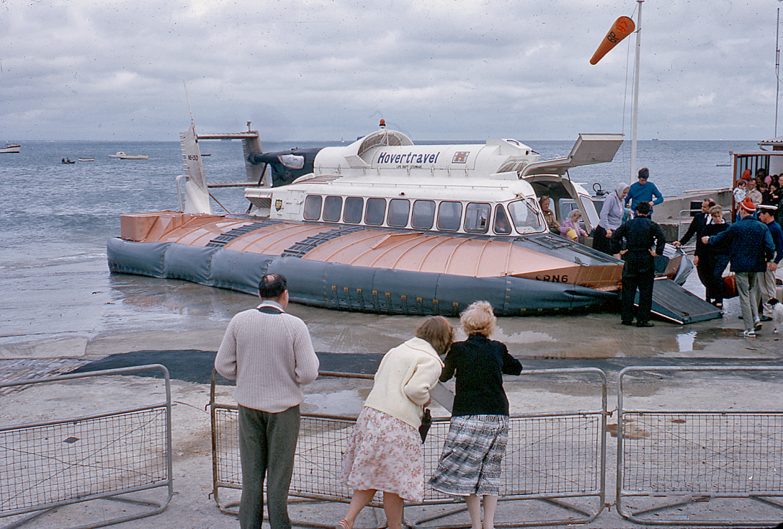 Hovercraft from Southsea at Ryde Pier Head, 1965. View NE, down Spithead.